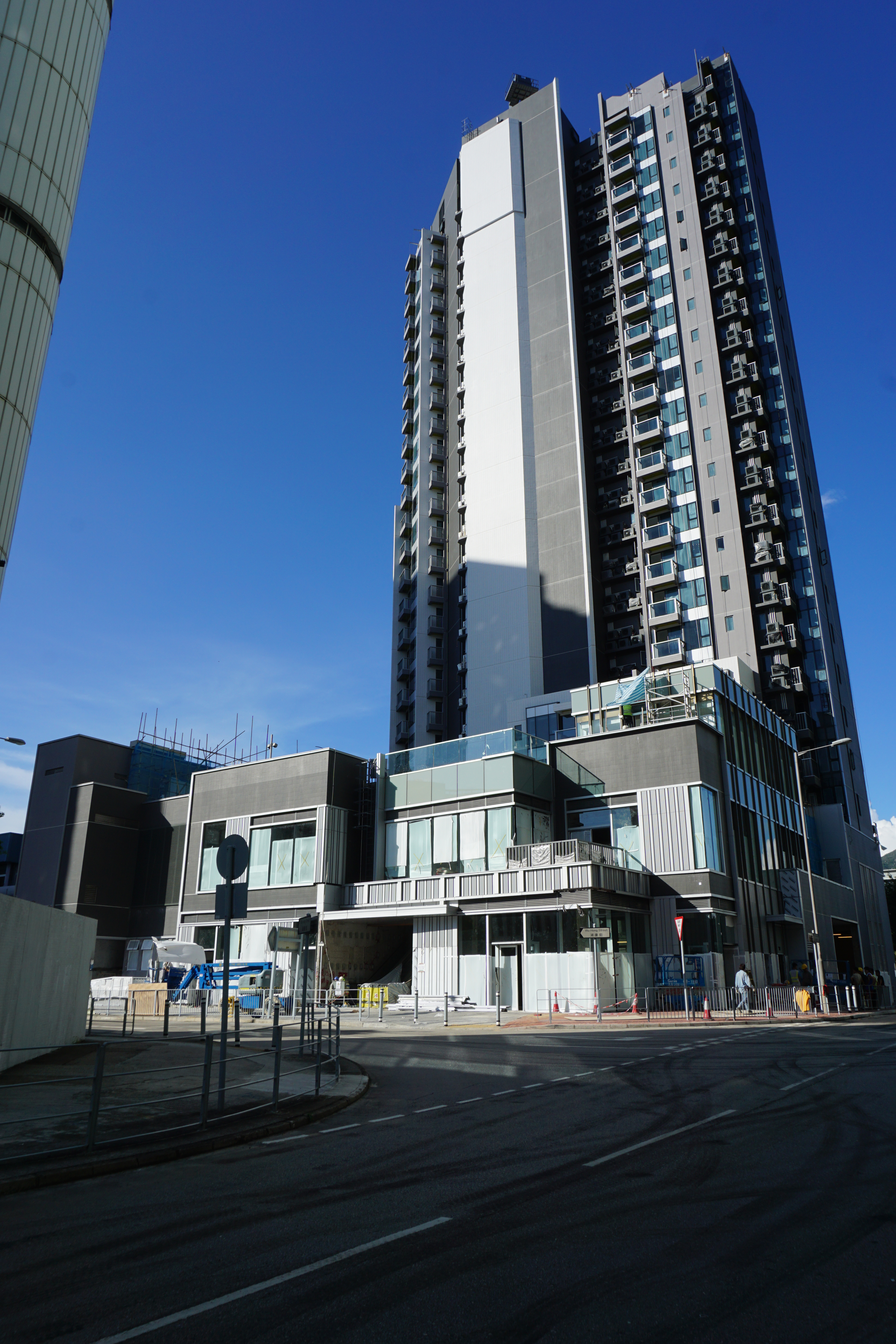 2Gether in Tuen Mun, Hong Kong.